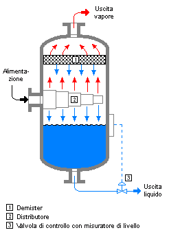 Vapour-liquid separator with demister.